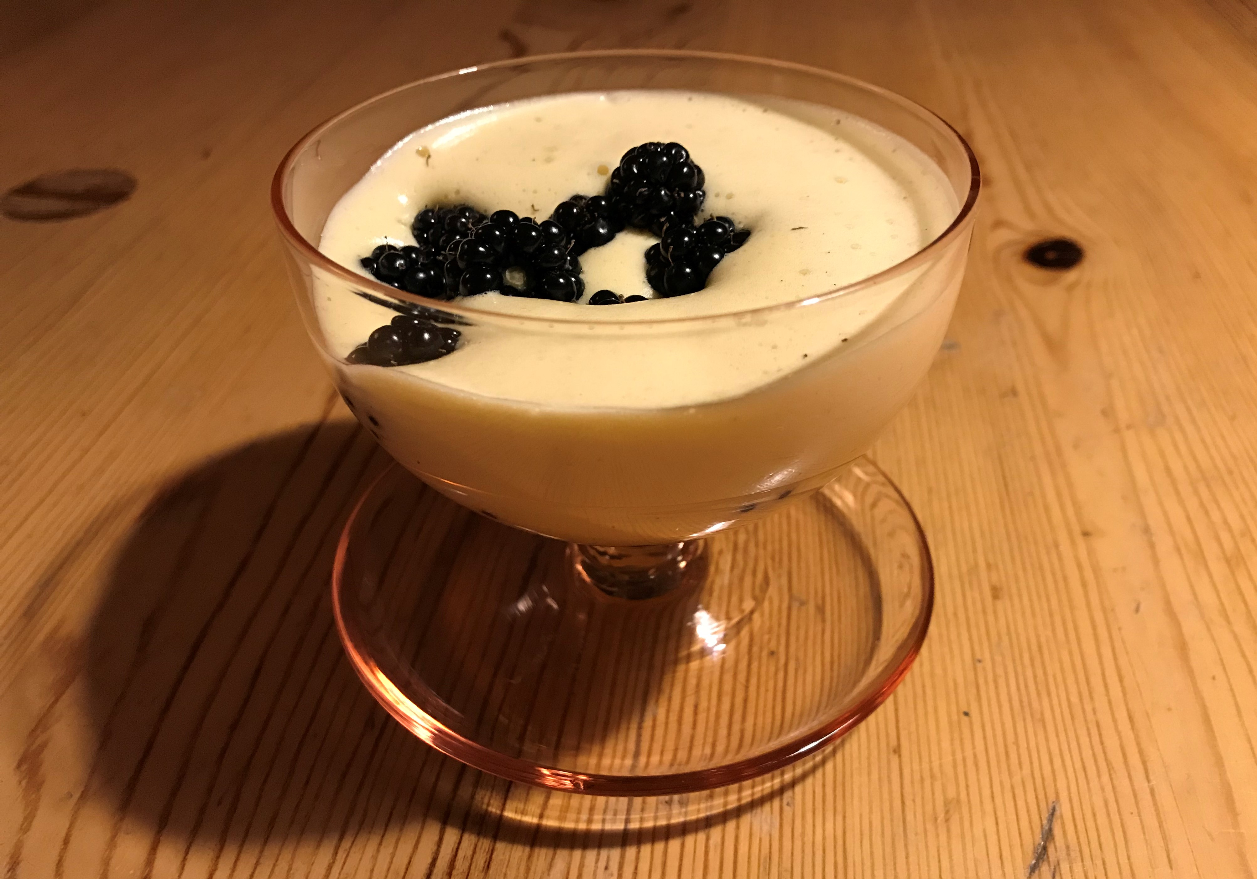 Zabaione with blackberries